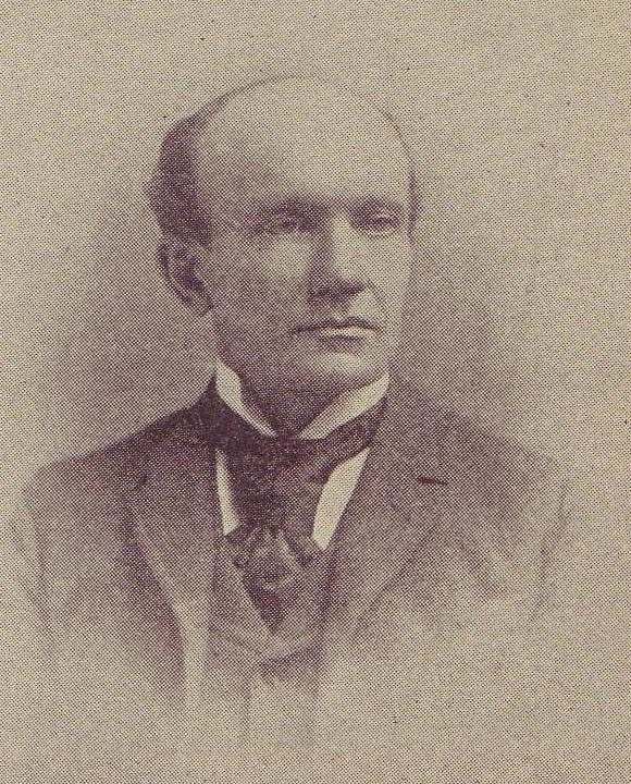 Portrait of G.L. Norrman